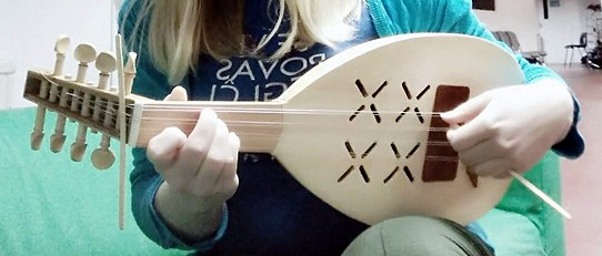 Cobza by Jo Dusepo